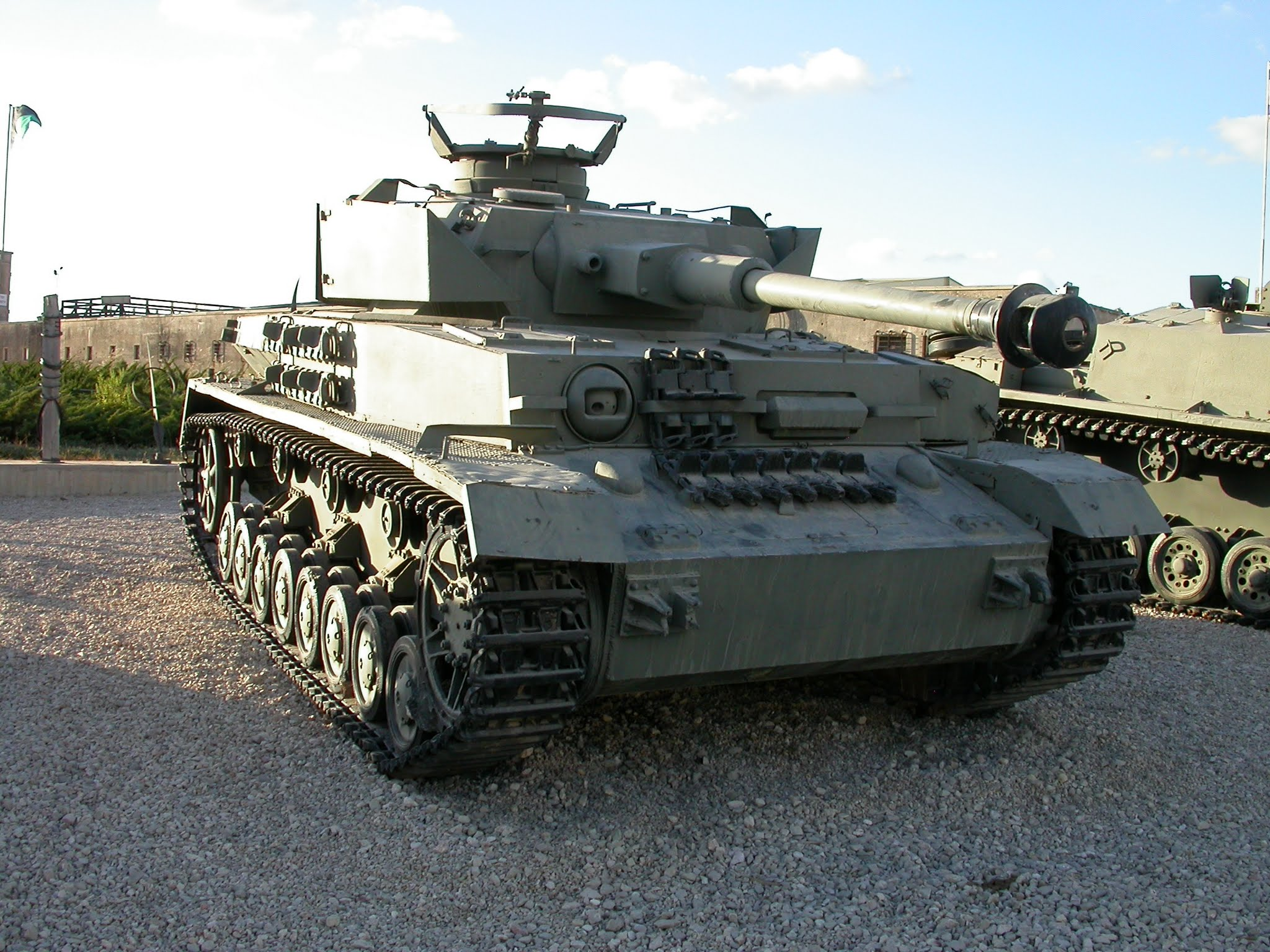 Military vehicle in the Yad la-Shiryon Museum